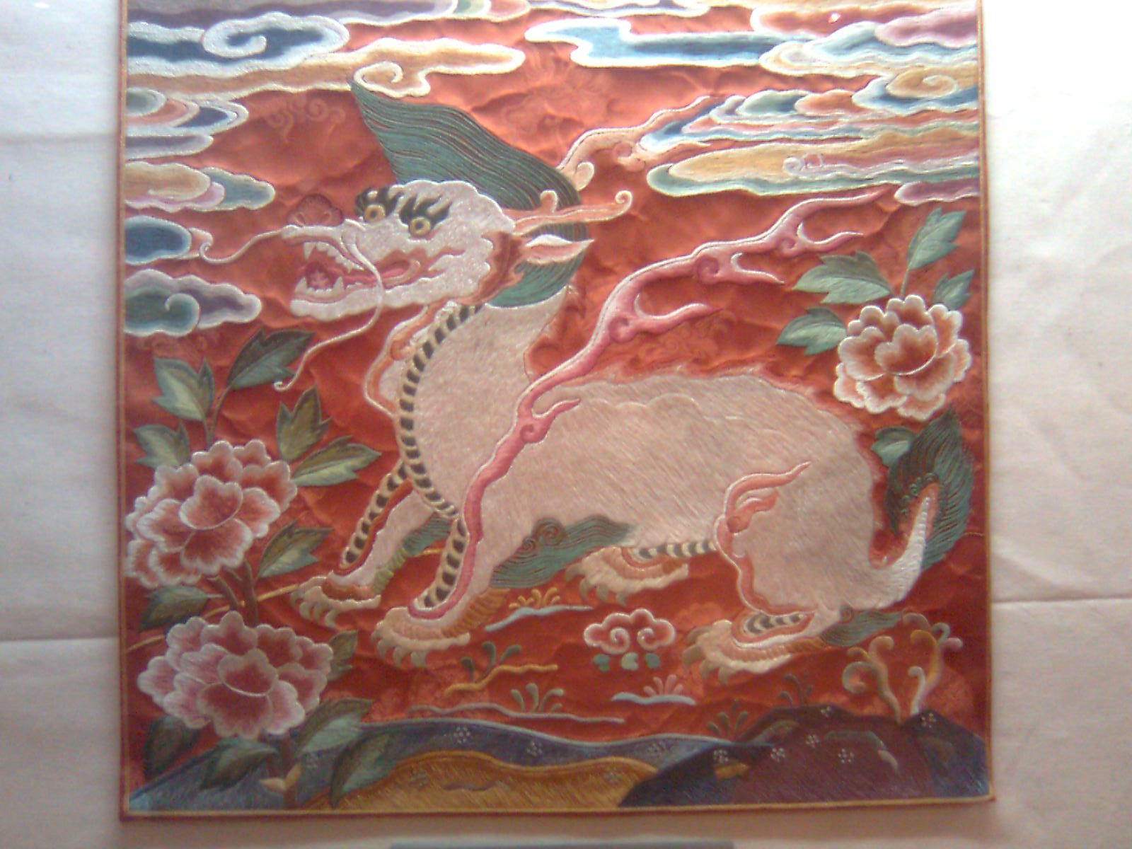 Rank badge with the mythical unicorn lion, insignia of judicial officer in Joseon Dynasty, collection of Mrs.Han Sang-soo, at the Korean Embroidery exhibition in National Museum, Jakarta, Indonesia, October 18th, 2009.